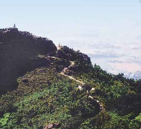 From JAINA 2004 calendar. JAINA has released the copyright. Image was provided by Rajeev Pandya, the chairman of JAINA Calander Committee. Kirit C Daftary, 2005 President of JAINA, had confirmed the relese.